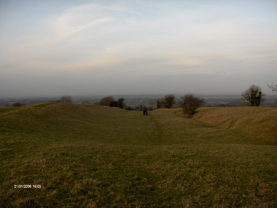 Banqueting Hall on the Hill of Tara, Boyne Valley, Ireland